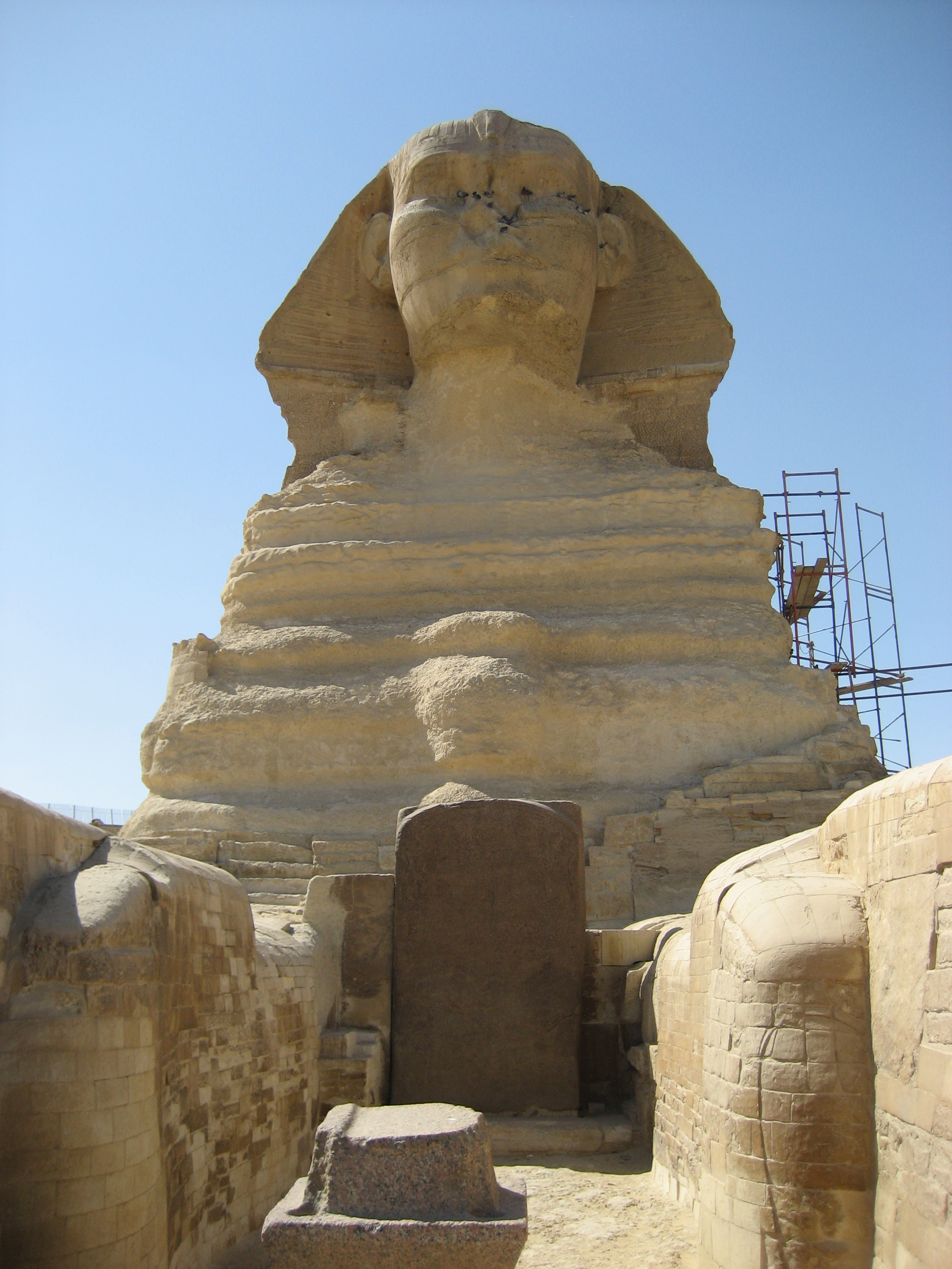 Frontal view of the great Sphinx of Giza with the Dream stela. Frontalansicht der Großen Sphinx von Gizeh mit der Traumstele.